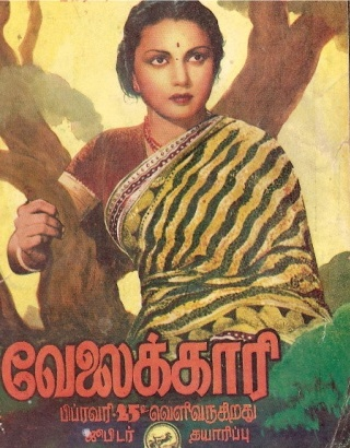 Poster for the 1949 Tamil film Velaikaari.